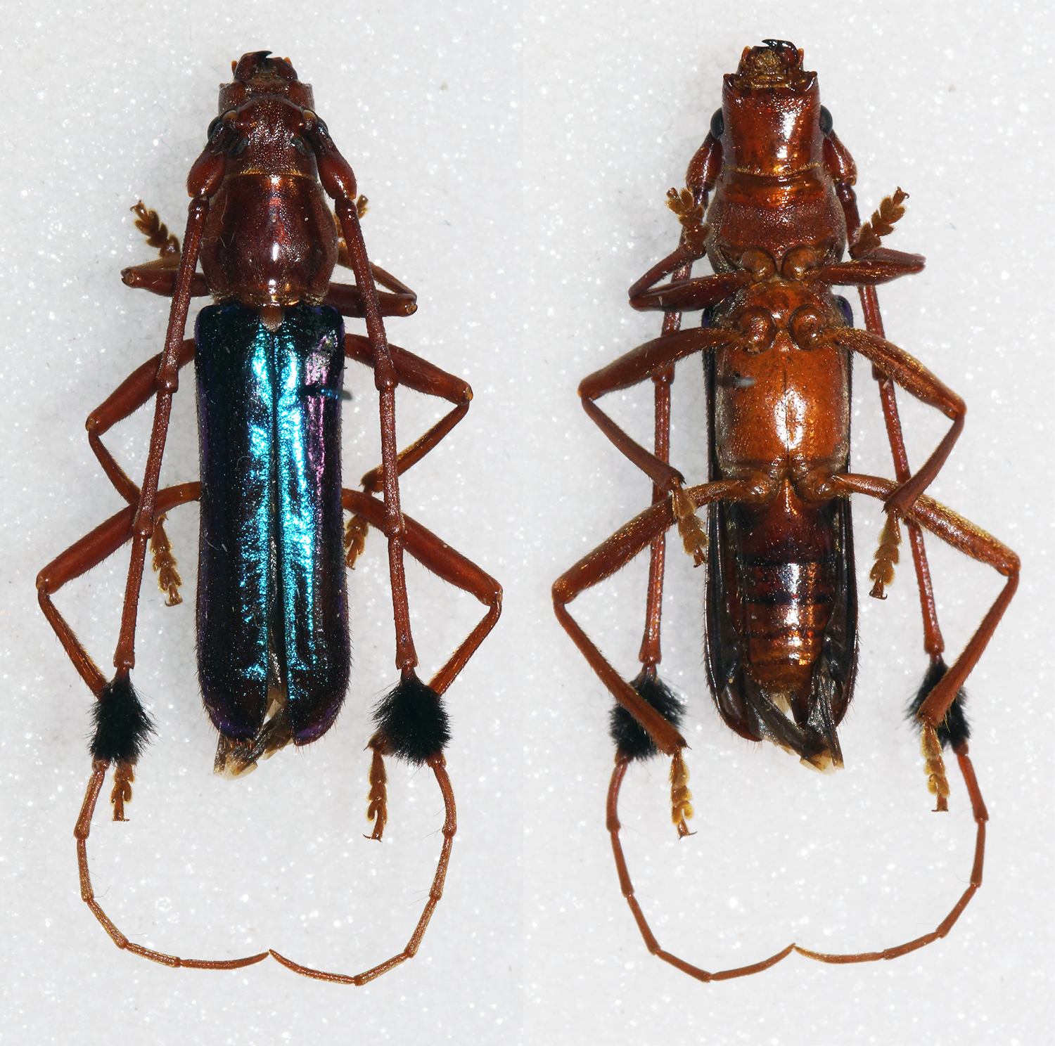 White,1853 Sex: Male Data: 12-12-00 - Misiones - Dos De Mayo - Argentina Size: 16.5mm